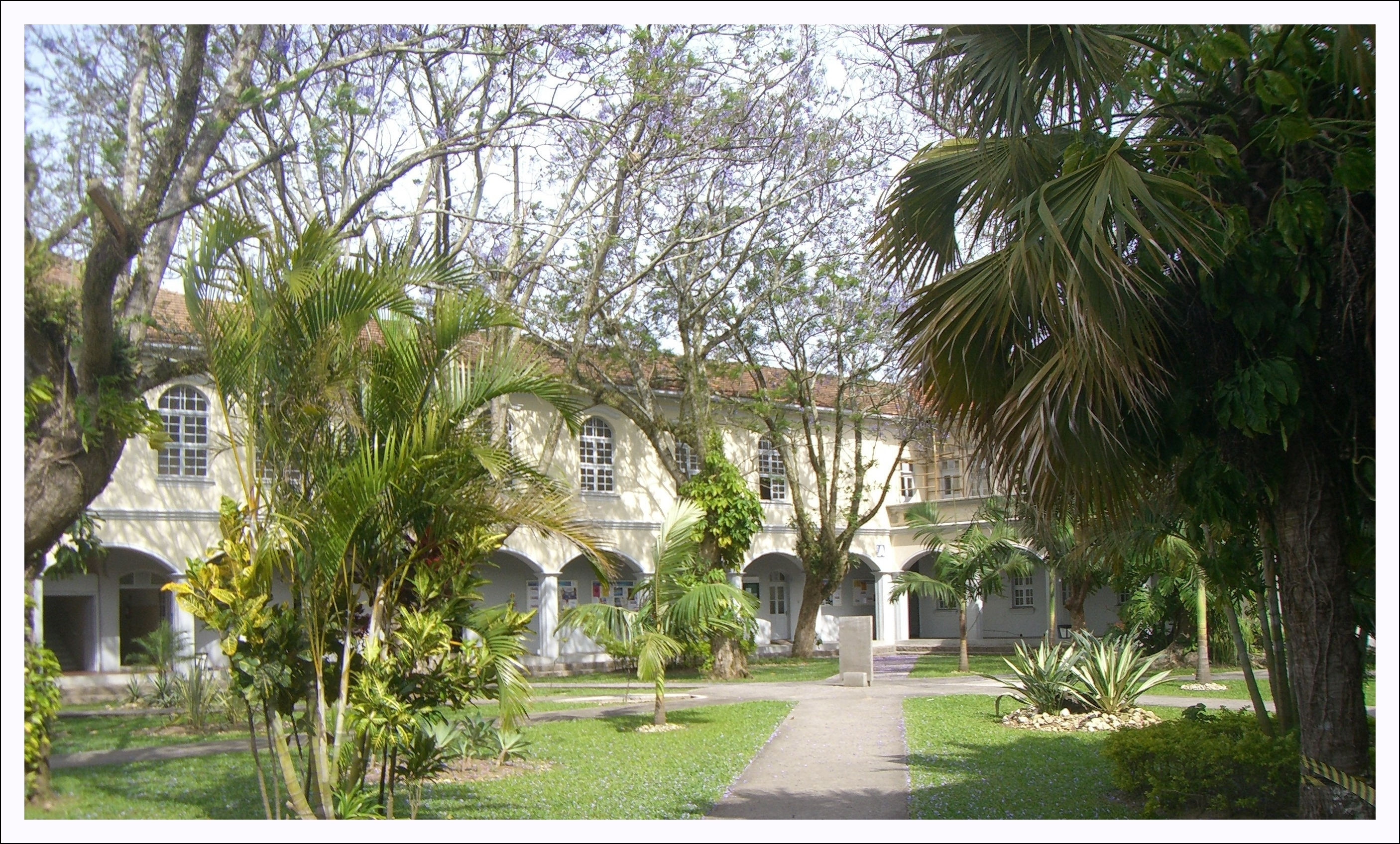 Colégio Dehon in Tubarão, Santa Catarina, Brazil, an institution of secondary education and seat of Unisul (Universidade do Sul de Santa Catarina)